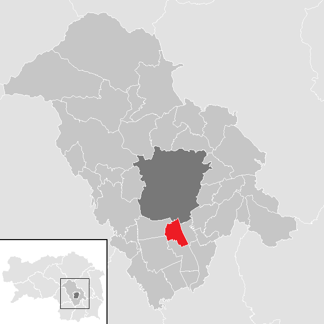 District Graz-Umgebung, Styria